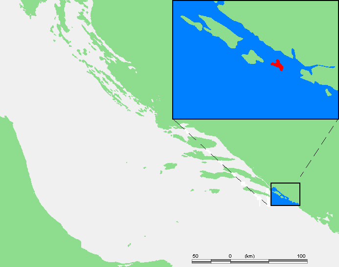 Island of Croatia - Croatia - Elafit Islands - Kolocep.PNG